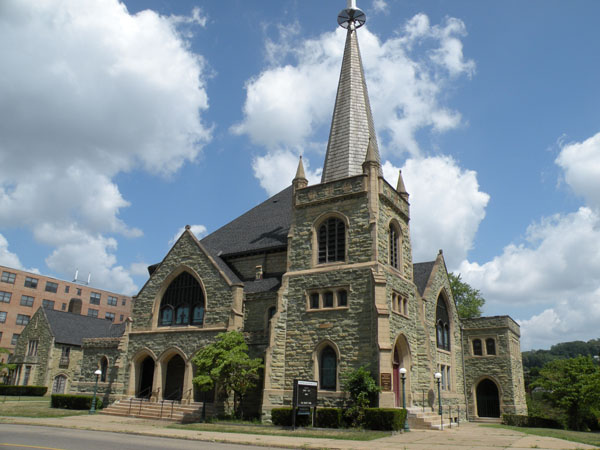 Picture of the Greenstone United Methodist Church located at 939 California Avenue in Avalon, Pennsylvania, on July 30, 2011. It was built in 1906, and is on the List of Pittsburgh History and Landmarks Foundation Historic Landmarks.